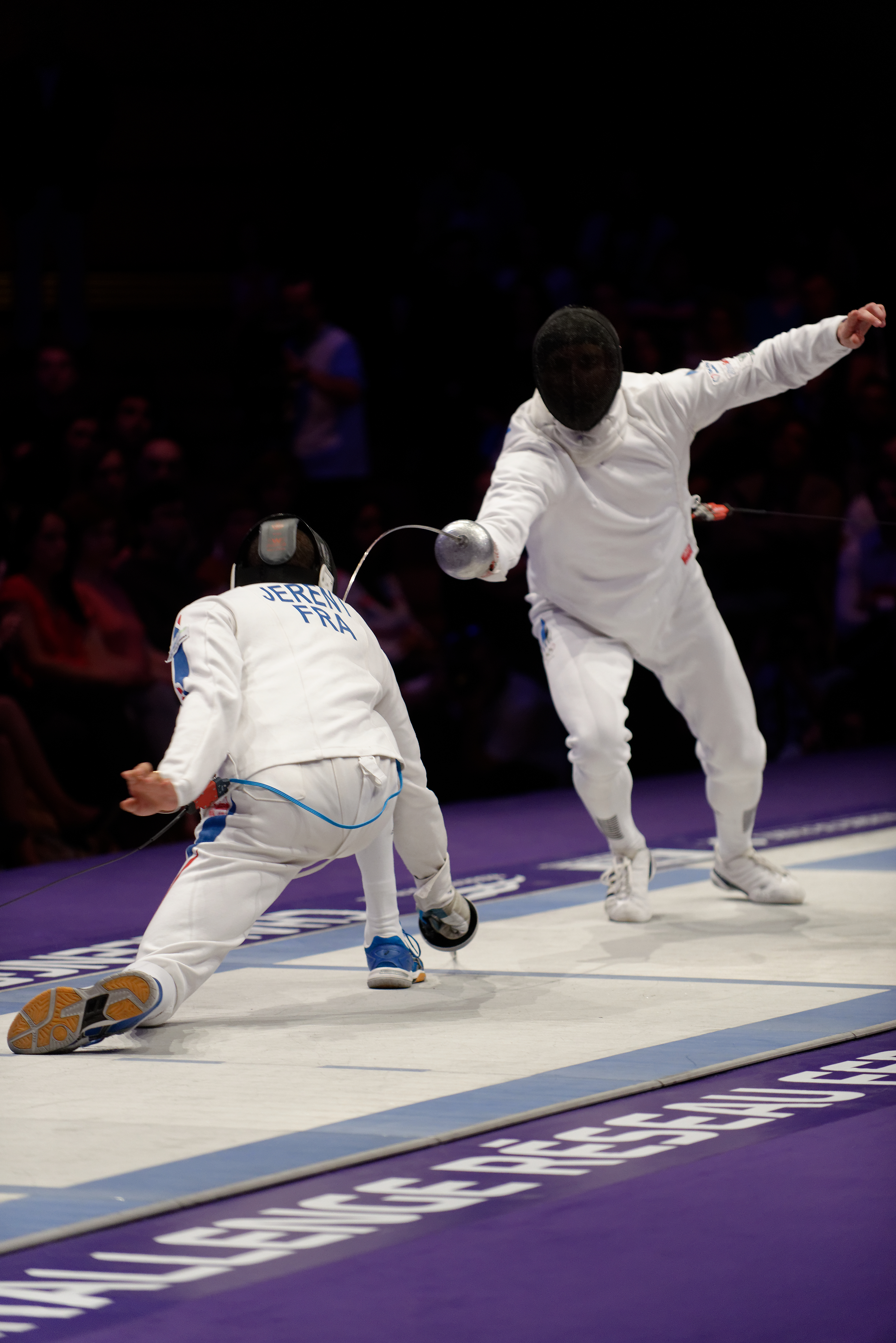 France's Daniel Jerent (L) fences against Nikolai Novosjolov (R) of Estonia in semi-final of the Challenge Réseau Ferré de France–Trophée Monal 2013, a men's épée FIE World Cup competition. Louvre Carrousel, Paris.